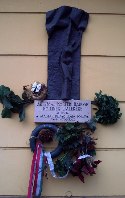 Plaque of the Hungarian Revolution of 1956, Zsigmond Móricz Square No 3/b